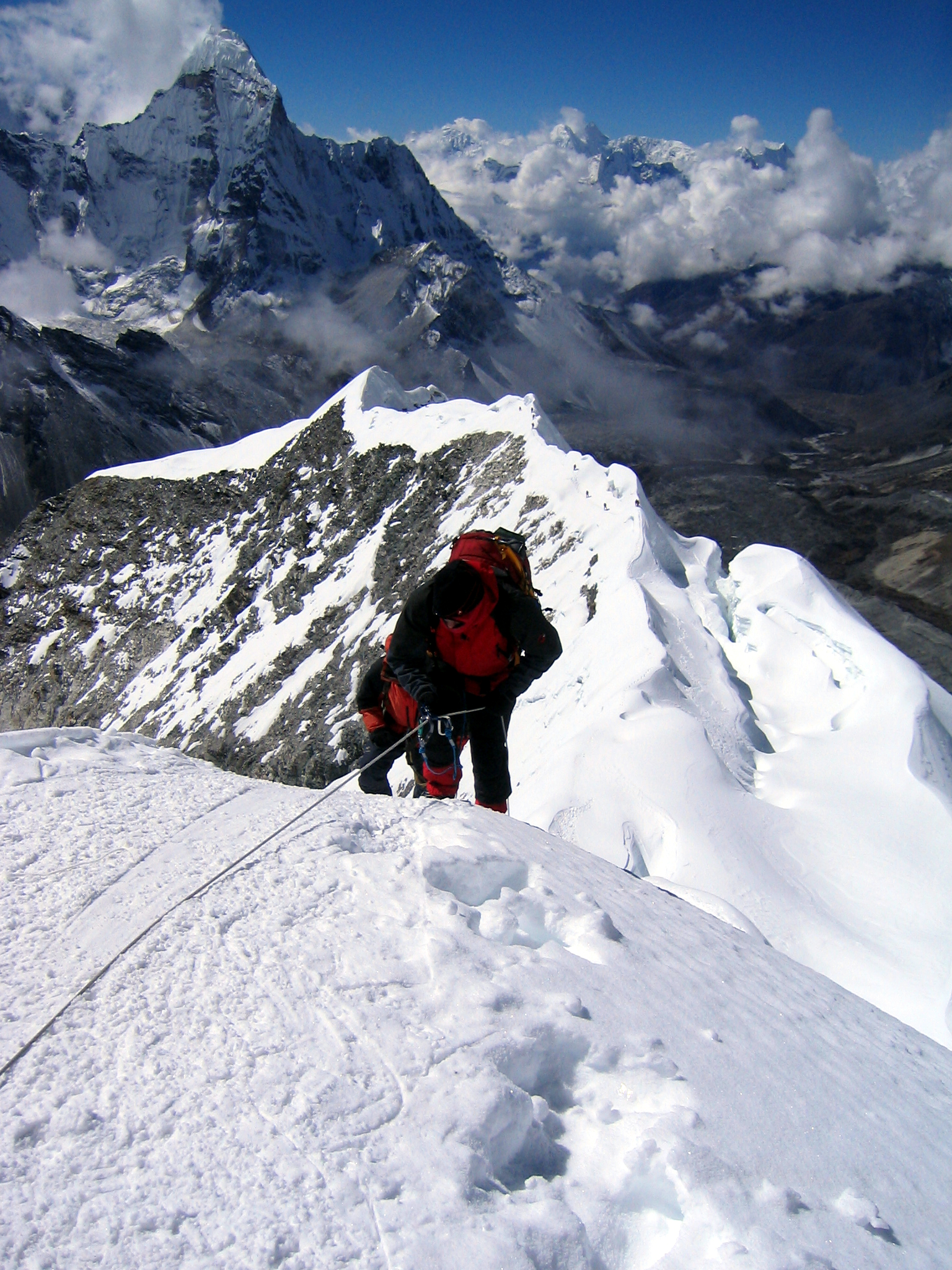 Climber taking the final few steps onto the 20,305 ft. (6,189 m) summit of Imja Tse (Island Peak) in Nepal.